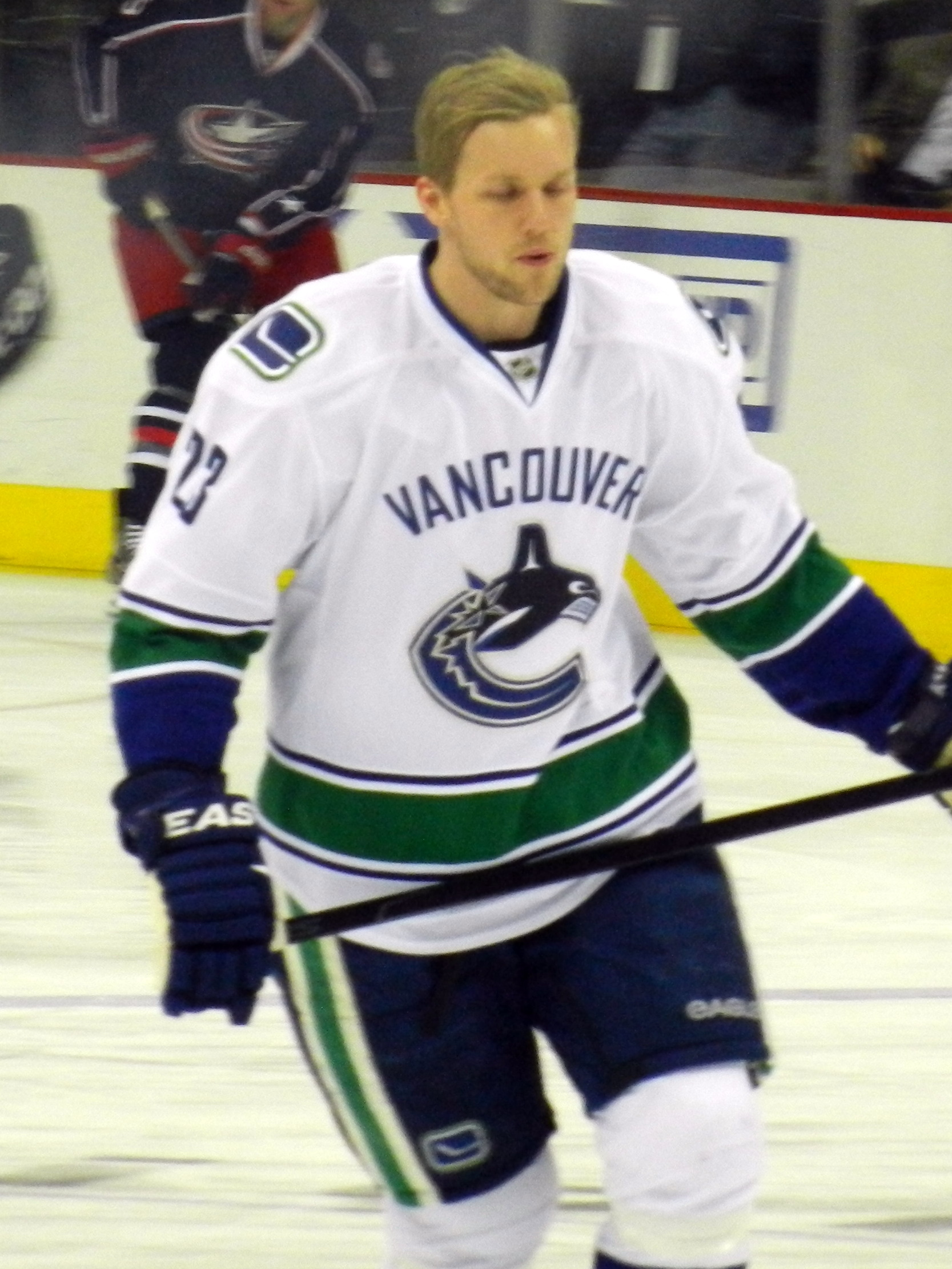 Alexander Edler playing for the Vancouver Canucks during warm-up of a game vs. the Columbus Blue Jackets in the 2011-12 season. Vancouver lost the game 2-1 in a shoot-out